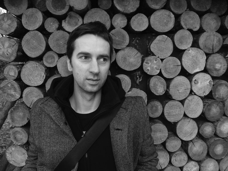 Ron Winkler, Berlin 2011